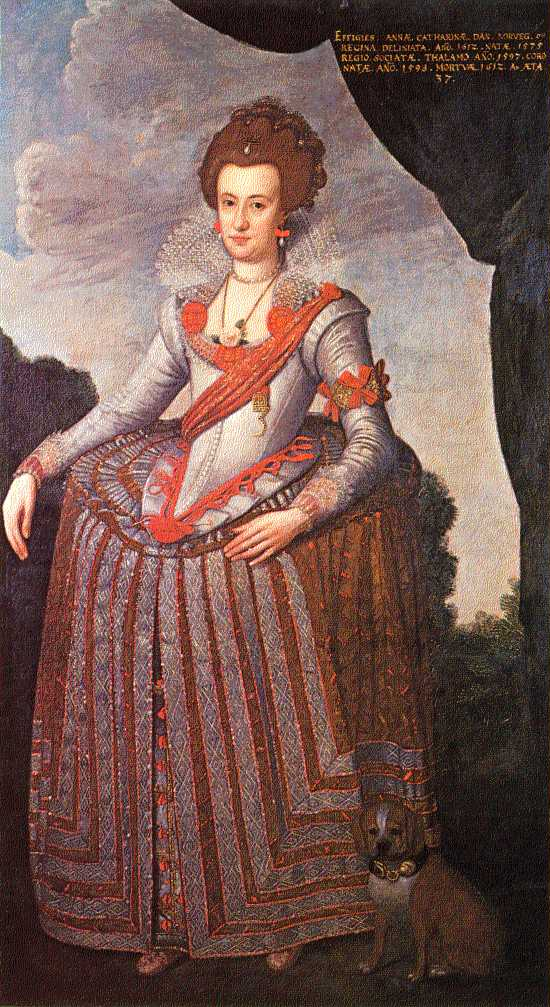 Portrait of Anne Catherine of Brandenburg (1575-1612)